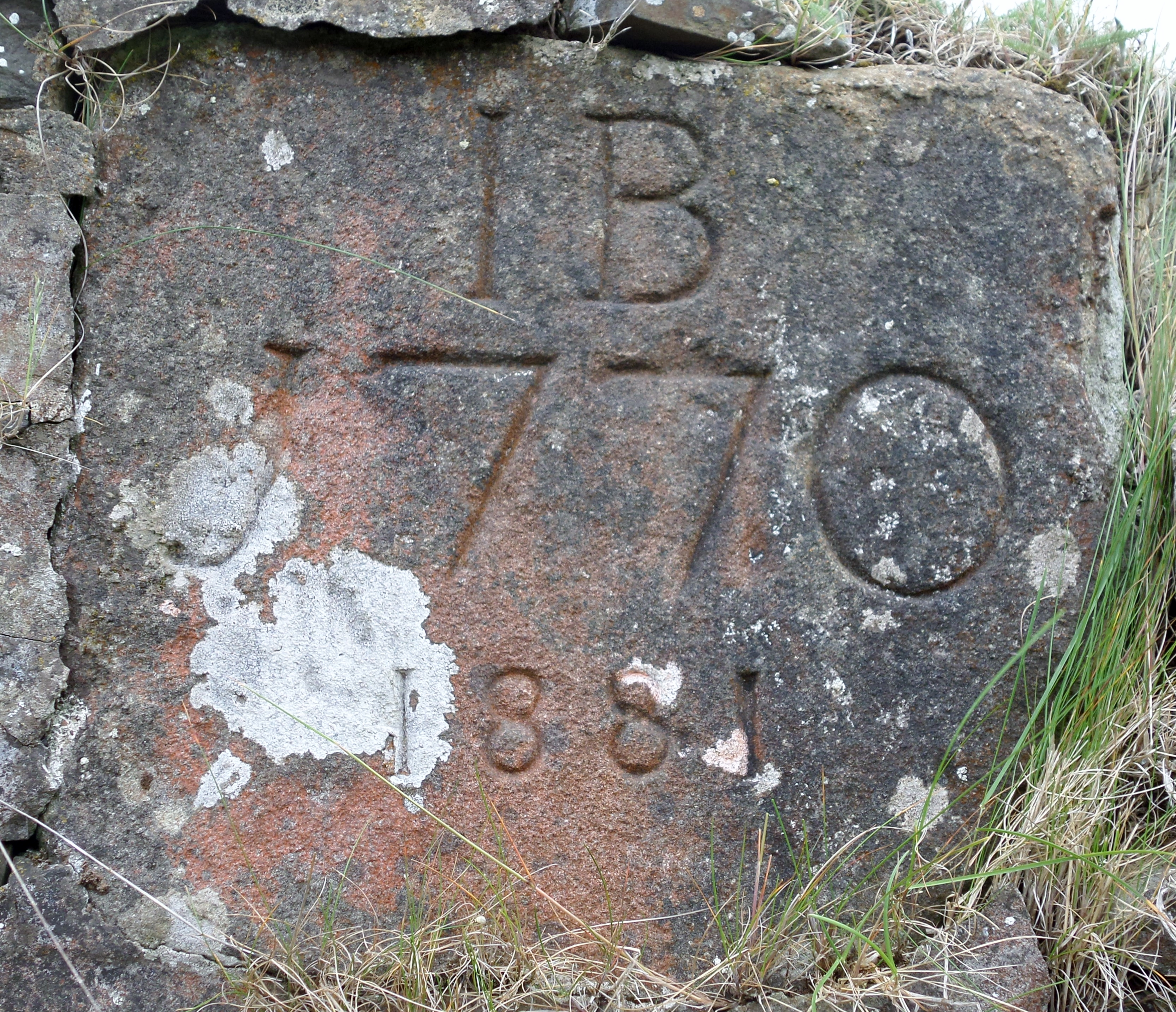 Old Blacklaw Bridge date stone (1770) on the north abutment, Kingsford, Strathannick, East Ayrshire